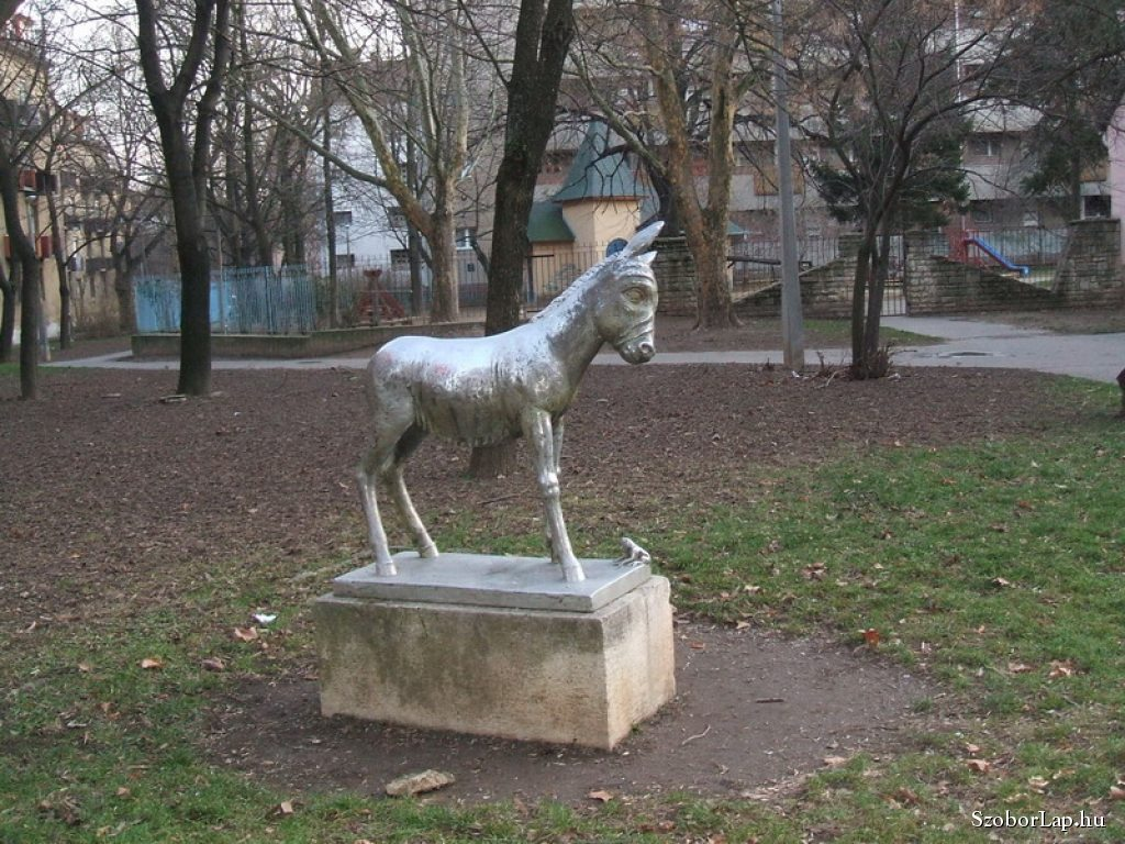 ~Donkey and frog by István Halmágyi